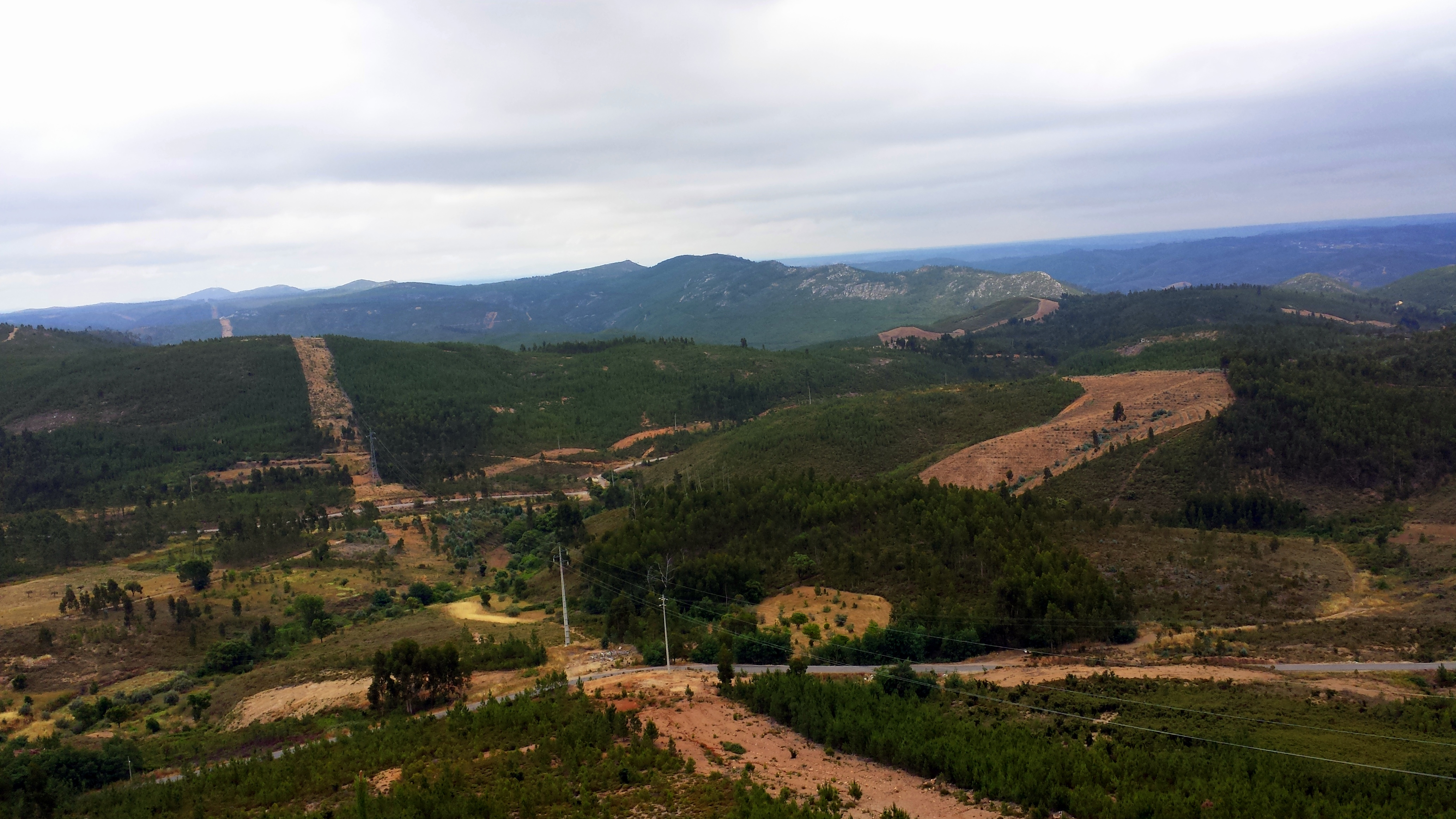 View of Mação from São Gens.